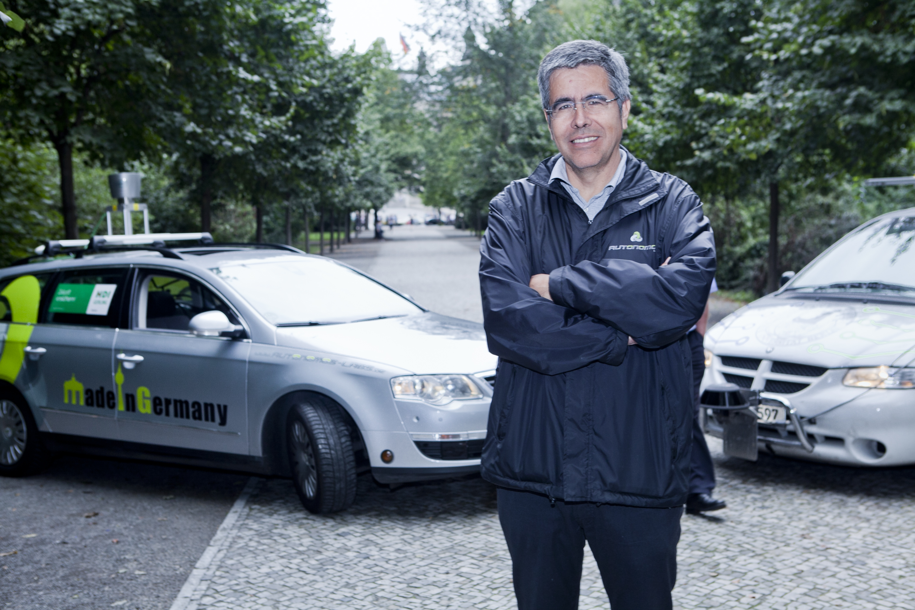 Raul Rojas Gonzalez, professor of Computer Science and Mathematics.